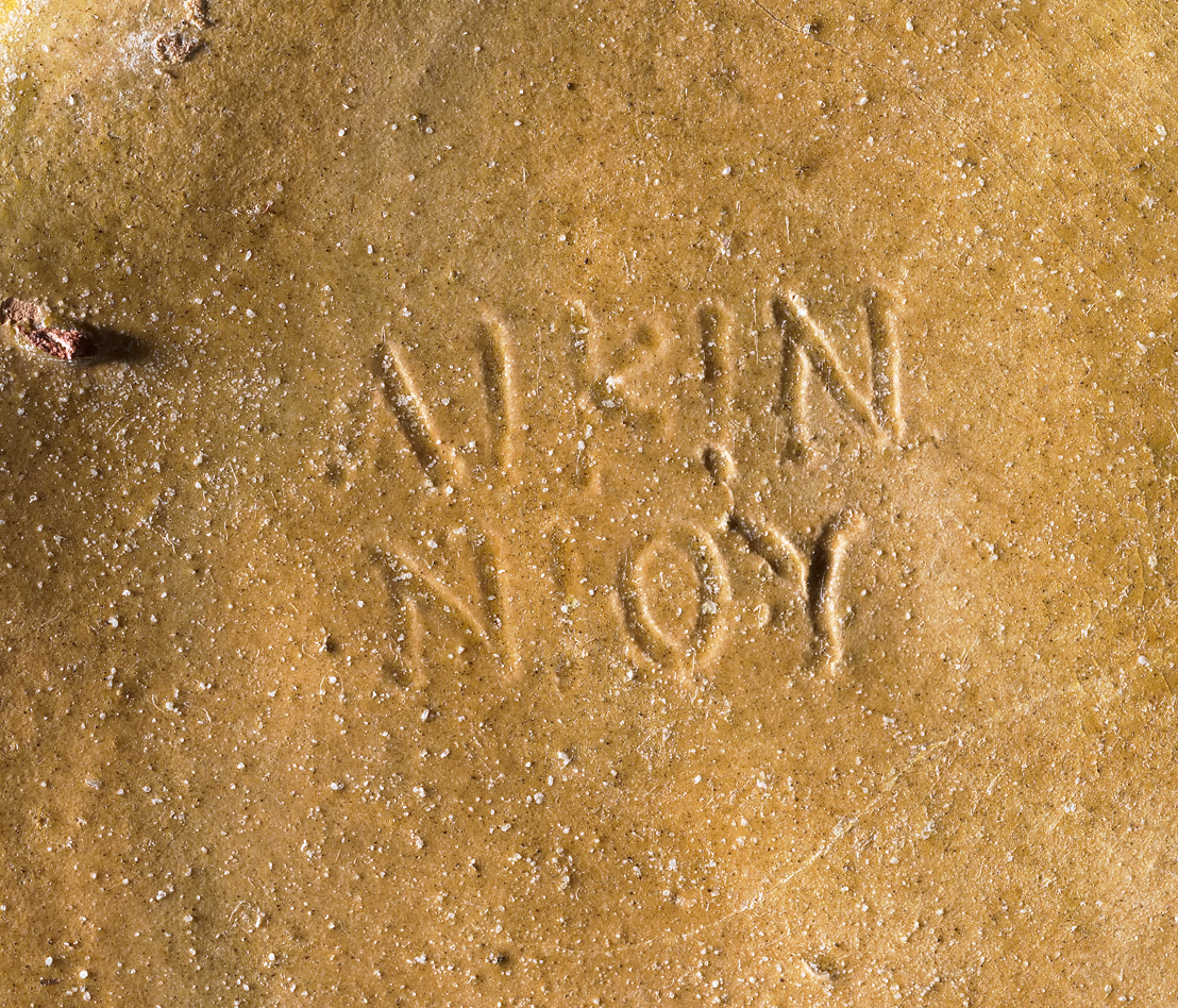 Title: Lead-Glazed Head Kantharos Artist/Maker(s): Likinnios (Greek, active 100 - 1 B.C.) Culture: Greek Place(s): Asia Minor (Place created) Date: 1st century B.C. Medium: Terracotta Dimensions: 19 x 12.2 cm (7 1/2 x 4 13/16 in.) Signed: Stamped in Greek Translated: "[work] of Likinnios". Alternate Title(s): Mug Shaped as the Head of a God (Display Title) Department: Antiquities Classification: Vessels Object Type: Plastic vase Object Number: 83.AE.40 The J. Paul Getty Museum, Villa Collection, Malibu, California